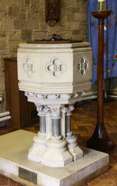 All Saints, Roffey, Sussex - Font